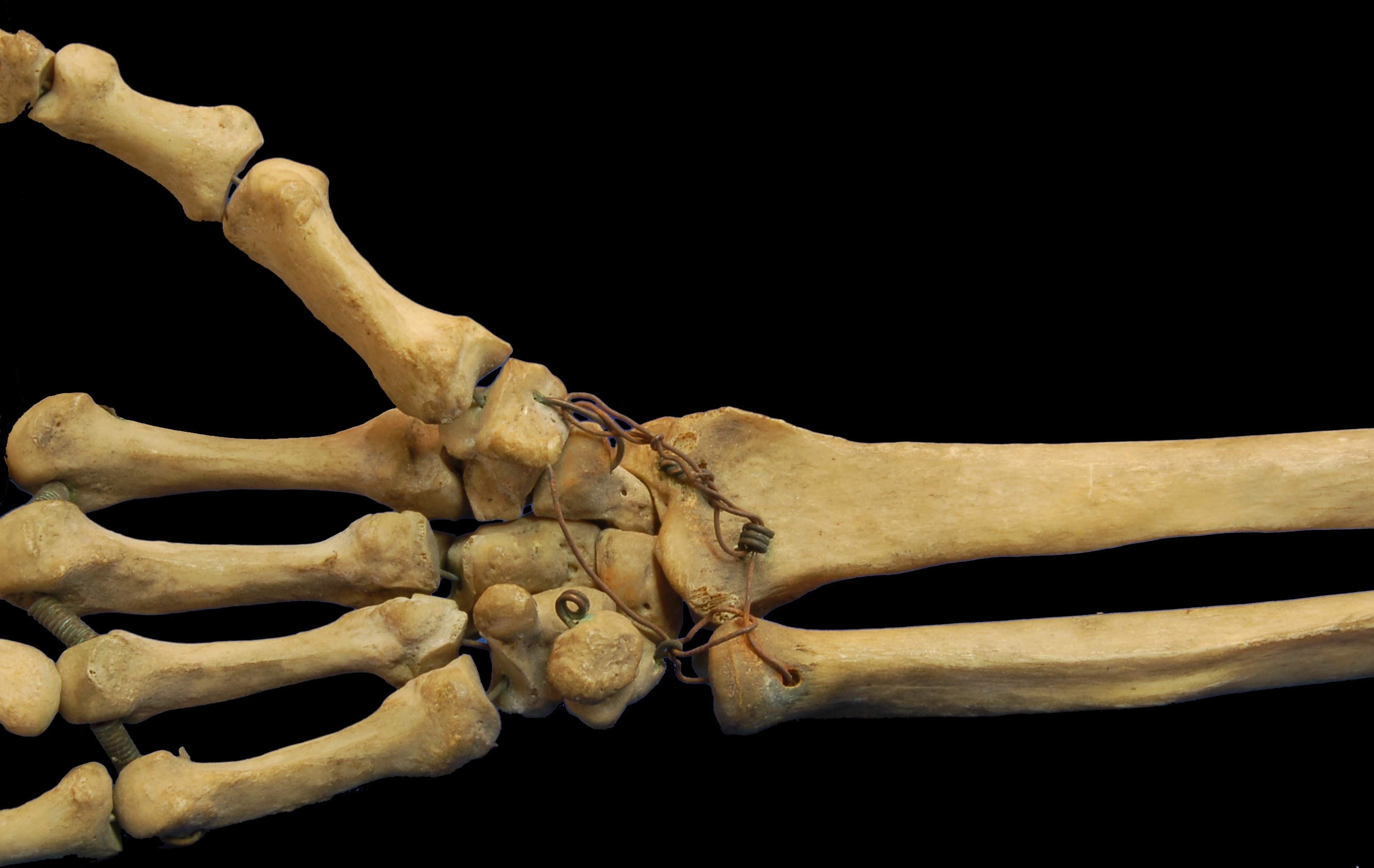 Photograph of right anterior human distal radius and ulna. Keywords: Human bones, bones, wrist, radius, ulna.